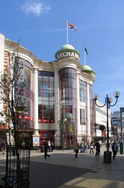 High Road, Ilford IG1 - Exchange